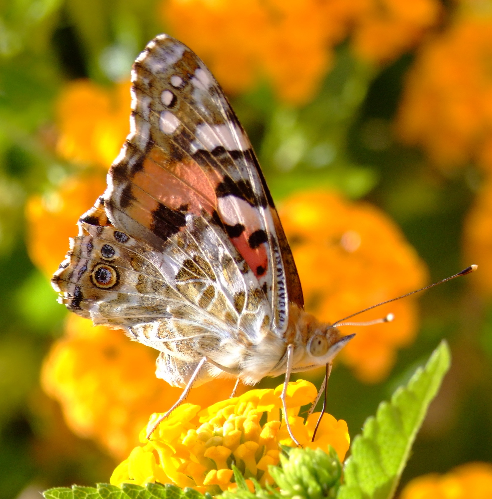 A Painted Lady (Vanessa cardui) on yellow flower.